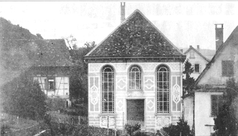 Synagogue of Tübingen, built in 1882 and destroyed during the Crystal Nacht (9th November 1938).